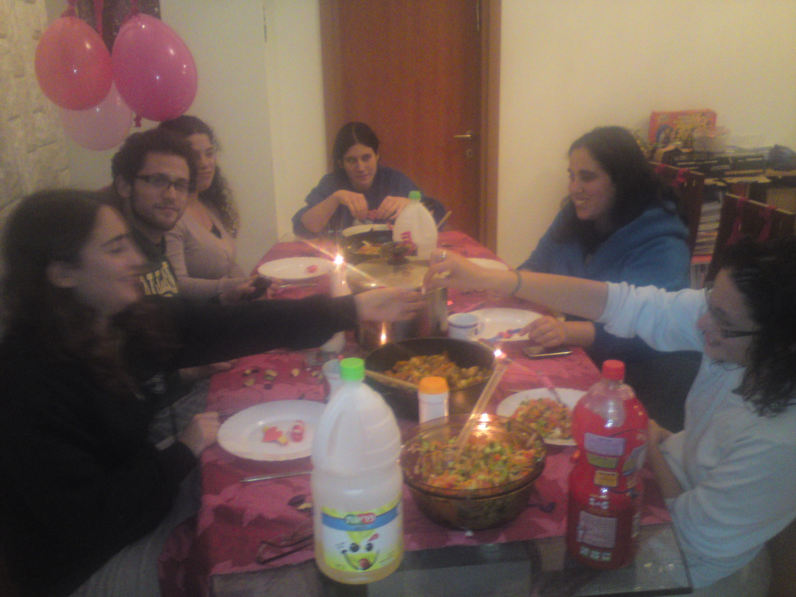 A dinner in urban commune of HaNoar HaOved VeHaLomed, calld Gar'in Yisgav ,Ashkelon, Israel